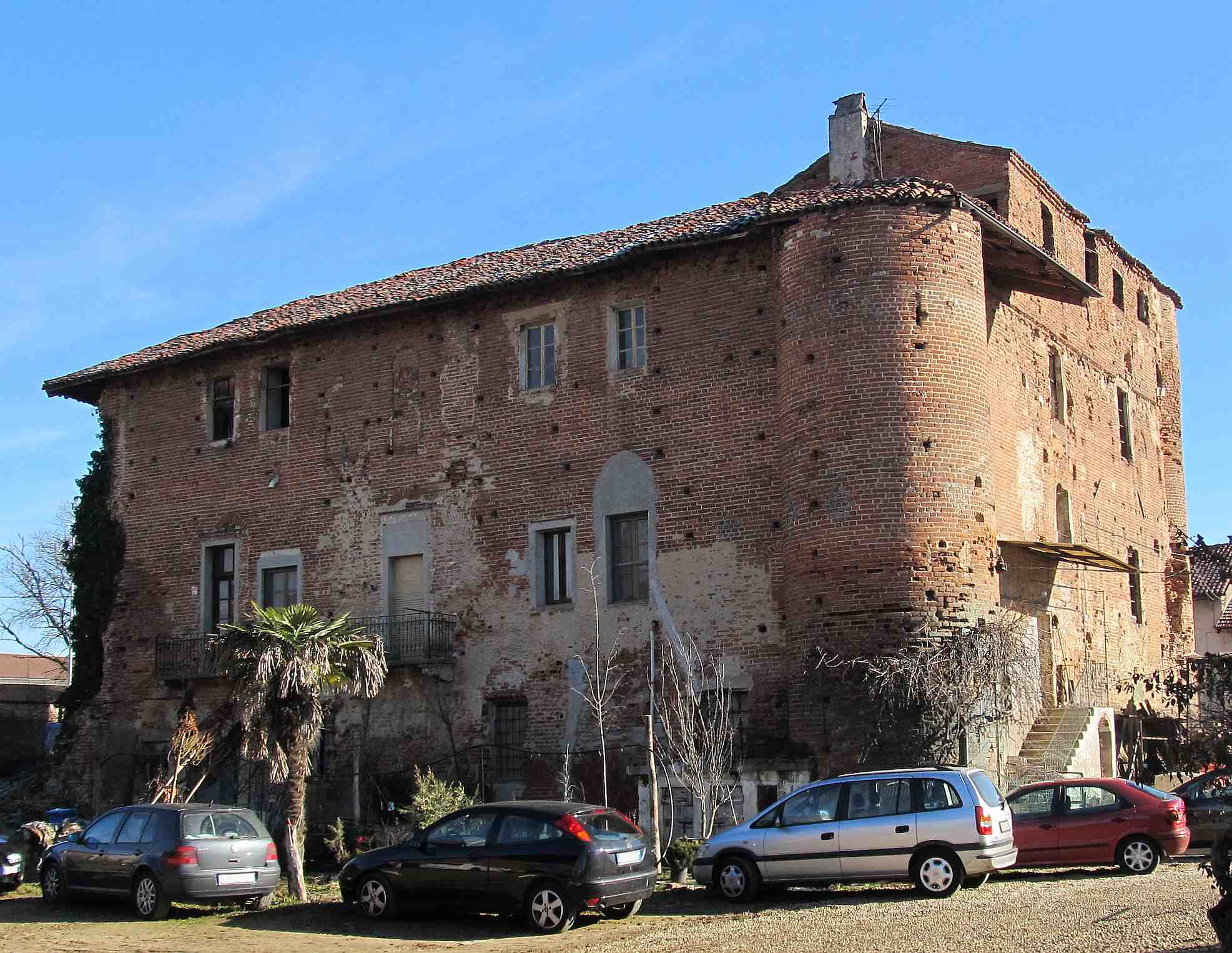 Trofarello (TO, Italy): Rivera castle